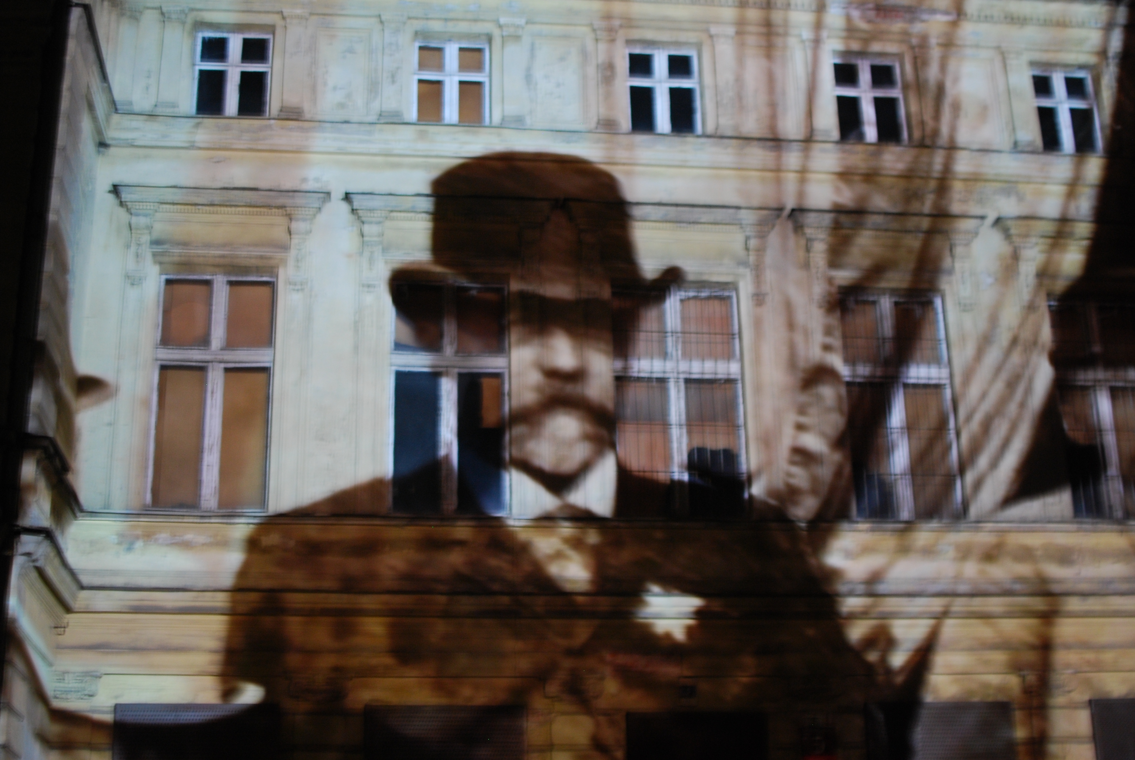 Light Move Festival Łódź 2012, Moniuszki Street